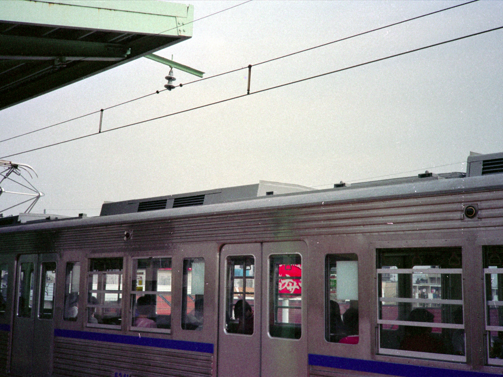 Ceiling of Bureau of Transportation Tokyo Metropolitan Government 6241 at Hasune station